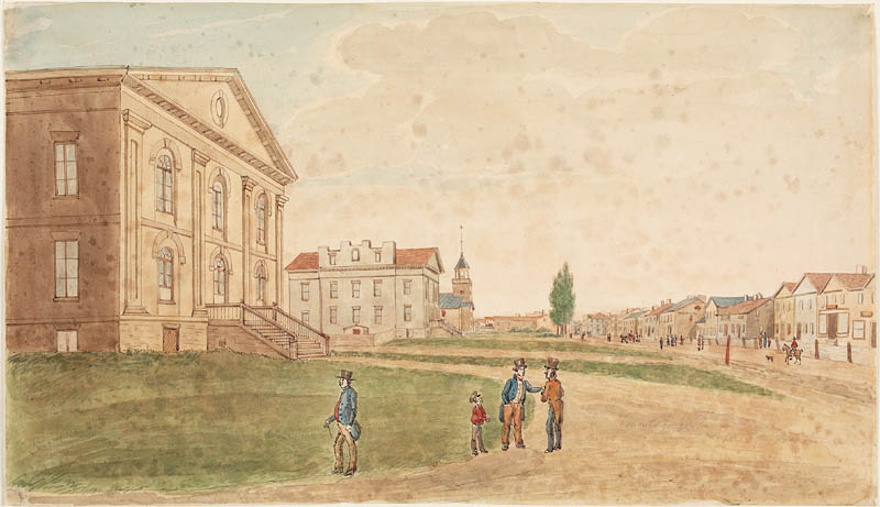 York, capital of Upper Canada, showing Court House and Jail, August 1829 - watercolour over pen and ink on woven paper. The city was renamed Toronto in 1834.